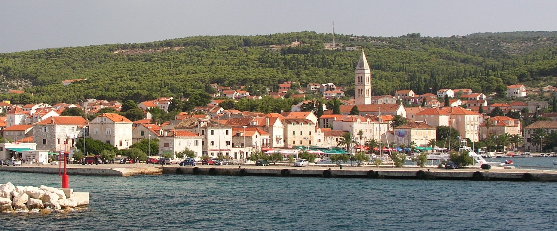 Supetar, Brač Island, Croatia